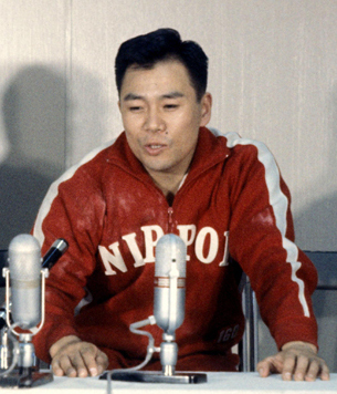 Takashi Ono at the 1964 Olympics